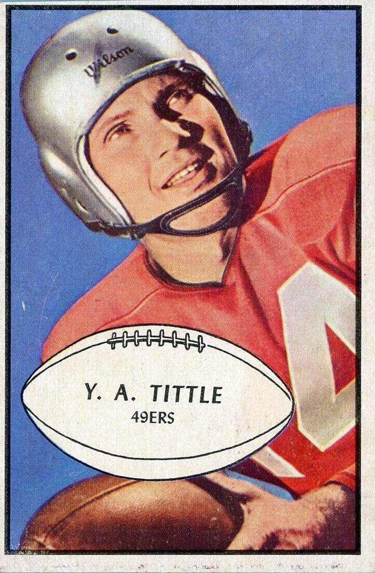 National Football League quarterback Y.A. Tittle depicted on a Bowman Gum football trading card in 1953 with the San Francisco 49ers